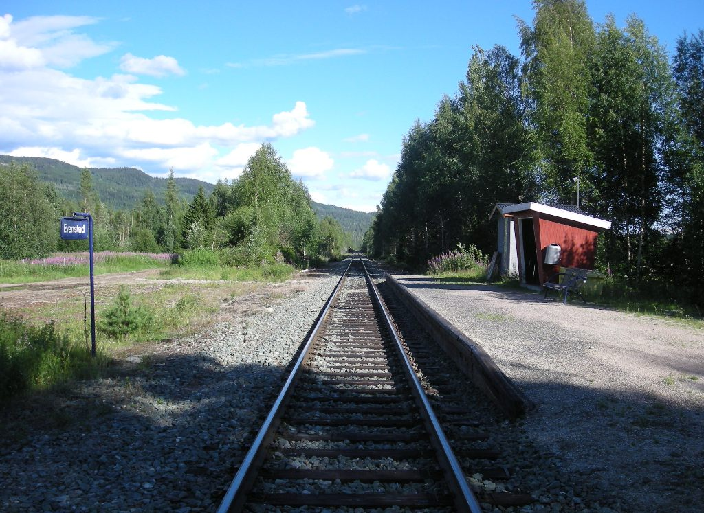 Evenstad station on the Røros line (Hedmark, Norway)